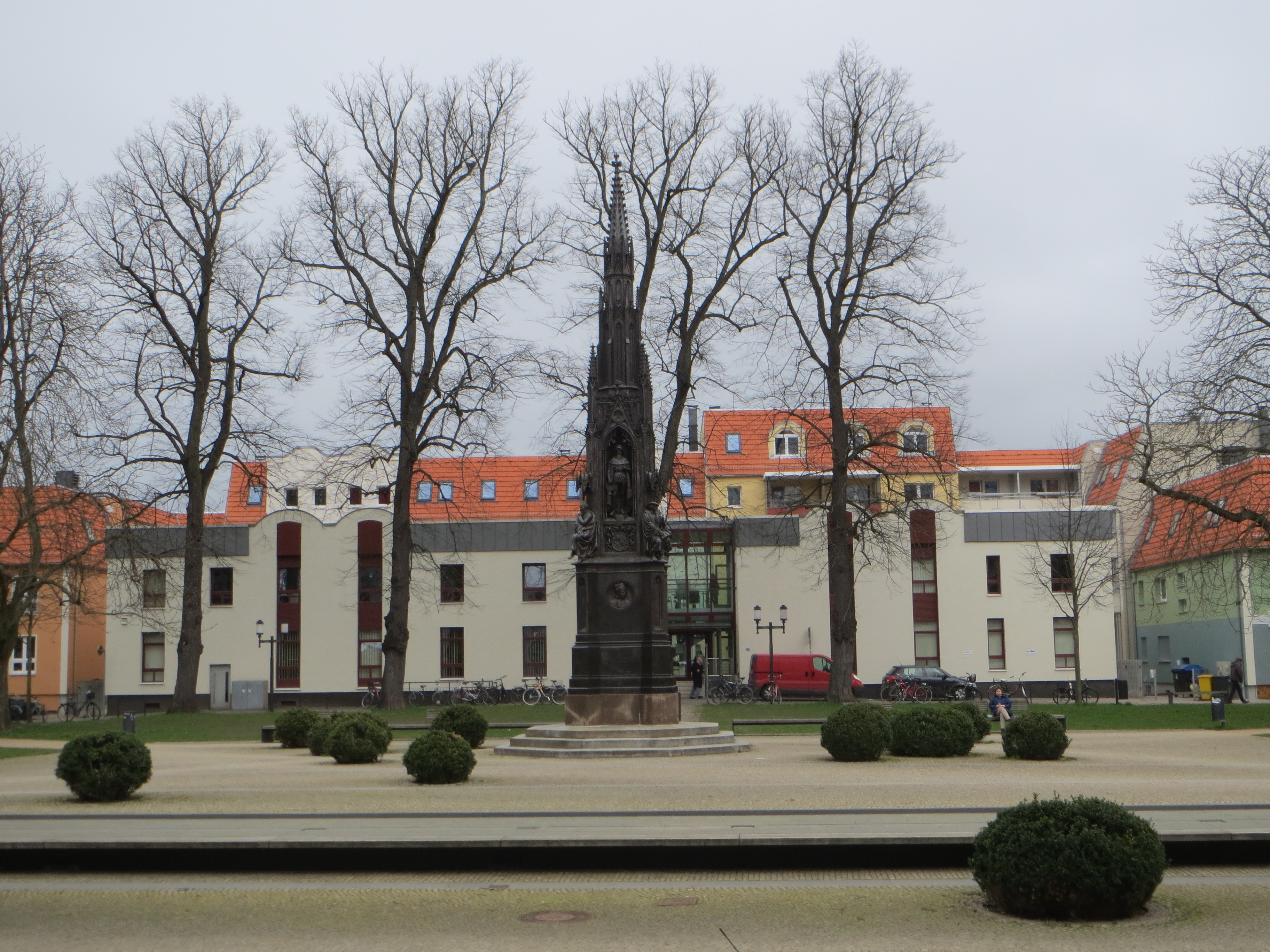 EMAU - Theologische Fakultät Ernst Lohmeyer Haus